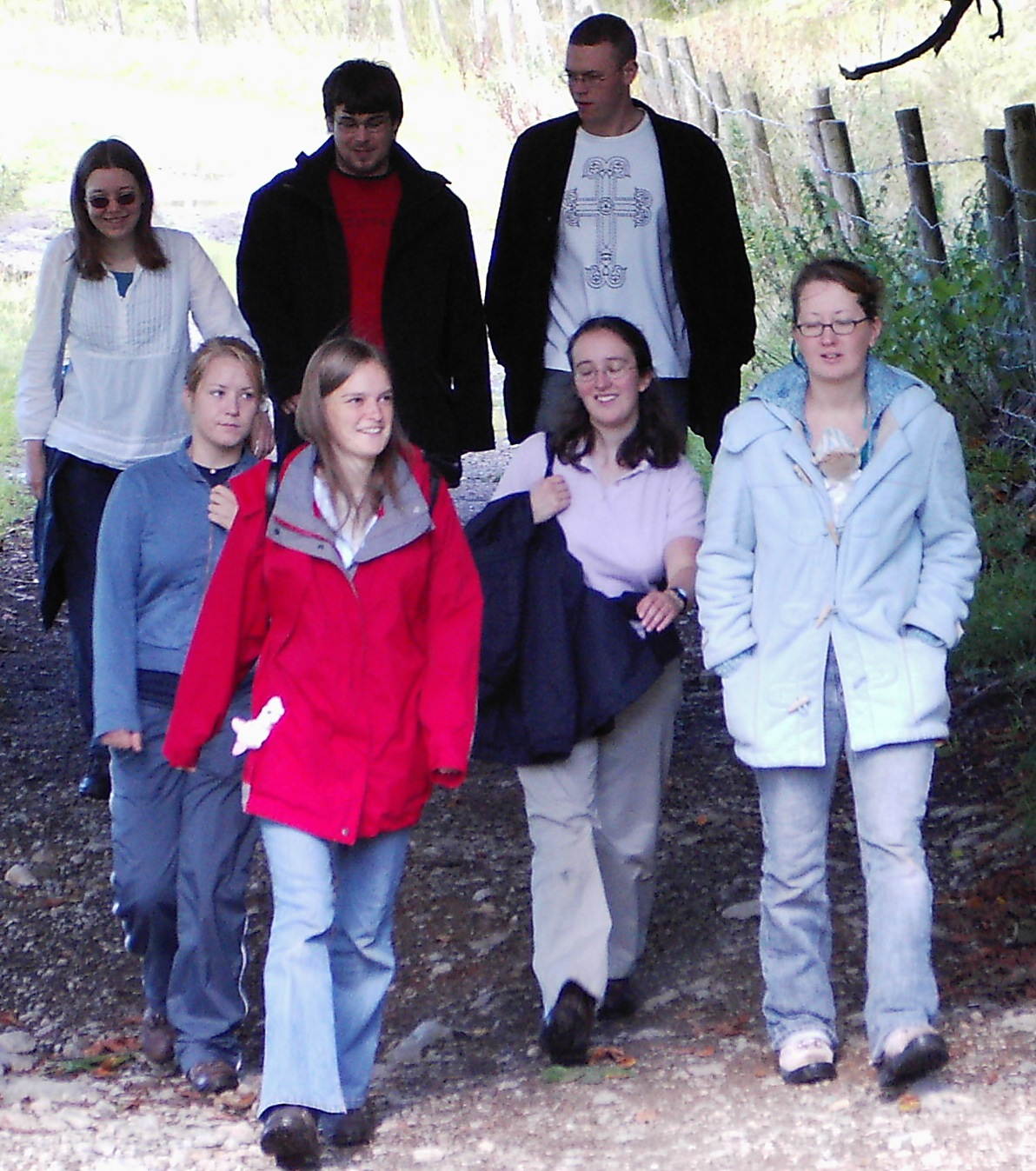 The current 2005-06 Castlerigg Manor team.